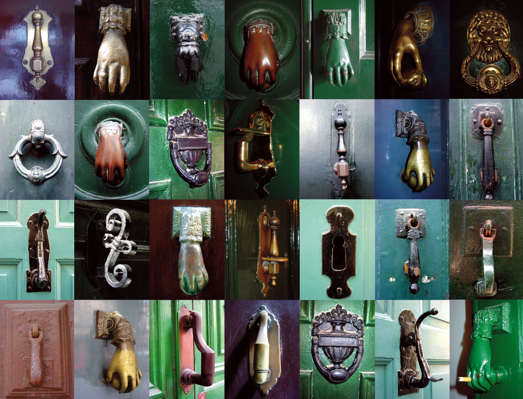 Latches of Santiago de Compostela, Galicia